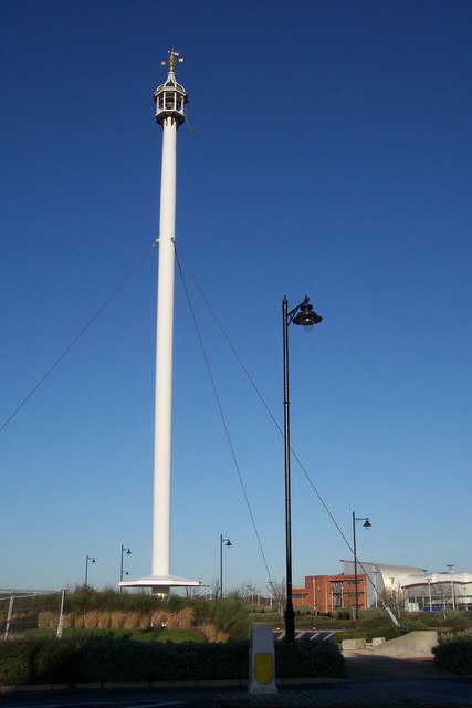 The Bell Mast, Chatham Dockyard Near the roundabout entrance to the Historic Dockyard. Broadside (MHS Home HQ) and Dickens World Cinema are seen in the background. The Bell Mast was originally made as a wrought iron ship's mast and fitted in 1872 to HMS Undaunted at Chatham Dockyard. The 100ft Mast was removed from the ship in the early 1900'S to be used as the Muster Bell which rang three times and alerted men that they were due to begin work. SEEDA has restored the Mast and 2001 it was placed In Western Avenue at the entrance to the dockyard. Below the Mast is a series of interpretations panels about the mast's history and an illustrated timeline of the mast and the dockyard for more info on HMS Undaunted